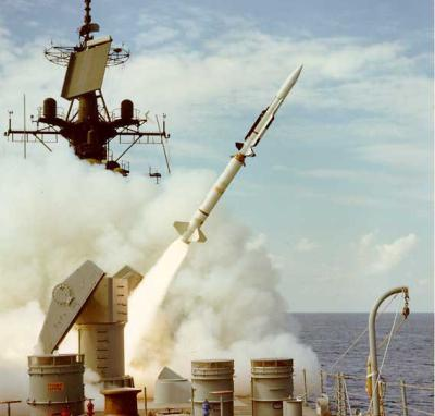 Launch of a U.S. Navy RIM-67A Standard ER missile from a Leahy-class guided missile cruiser.